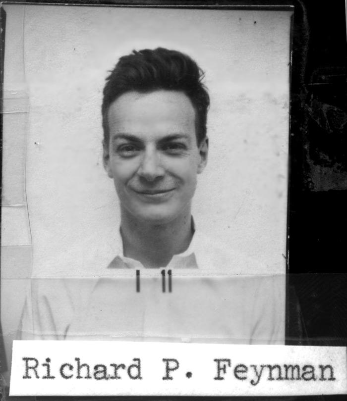 Richard Feynman's Los Alamos ID badge